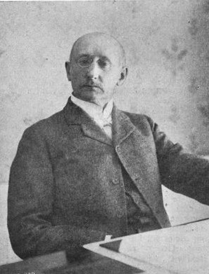 Swedish lawyer and Assistant Commissioner Theodor Hintze (1855-1918)